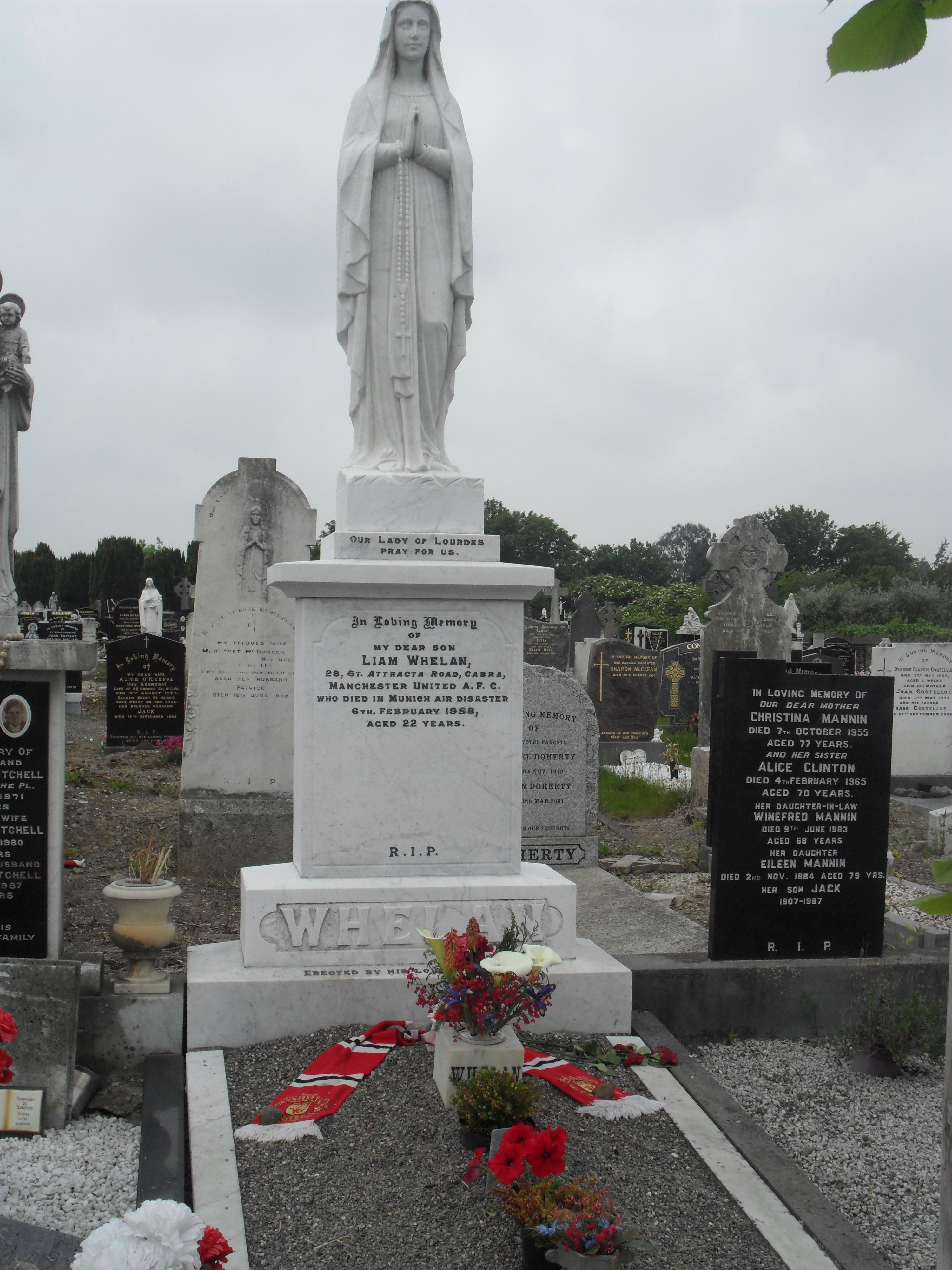 Liam Whelan tombstone